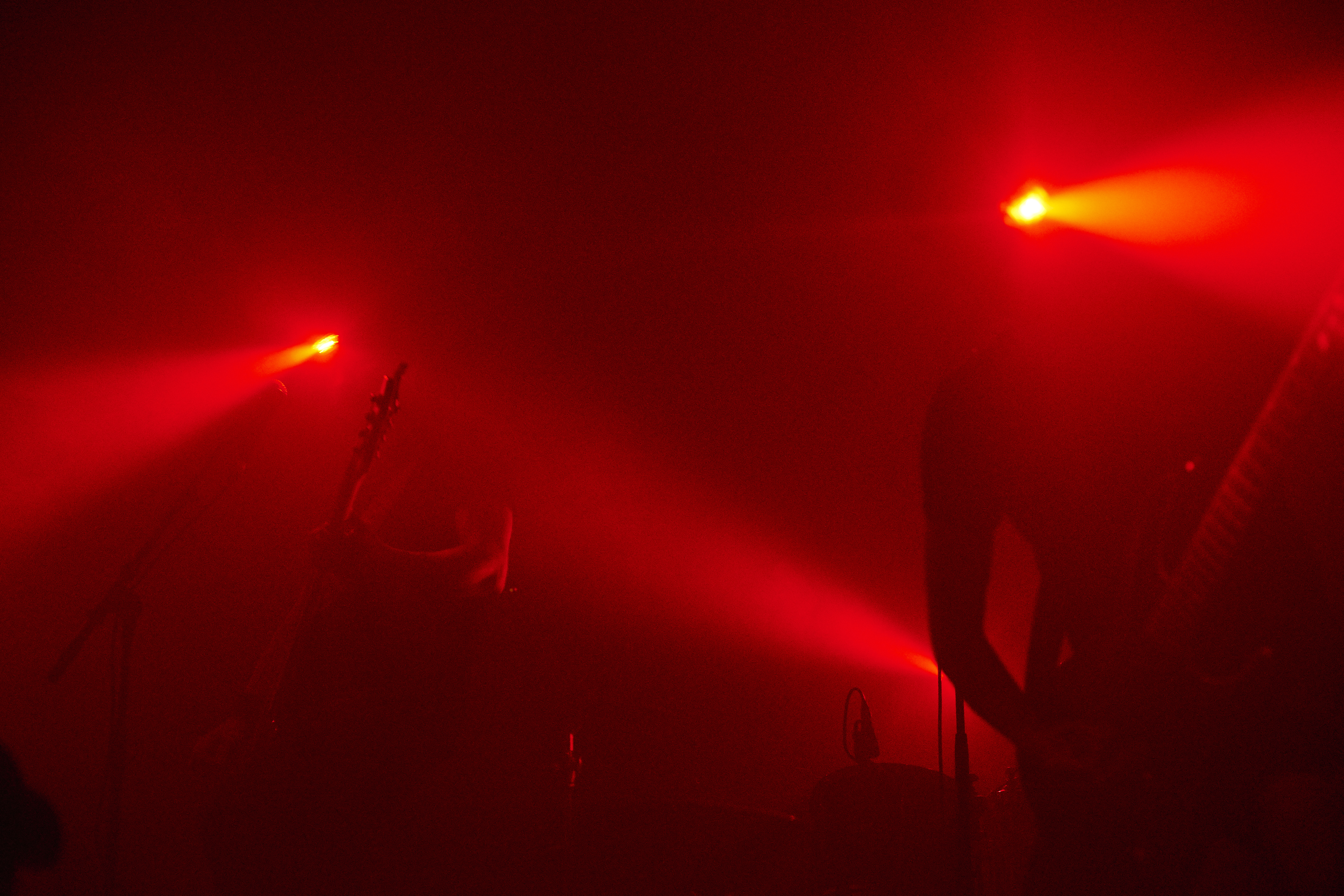 Celeste at Droneberg Doom Festival, Berlin-Kreuzberg SO36, 16.04.2015 Festivalsommer This photo was created with the support of donations to Wikimedia Deutschland in the context of the CPB project "Festival Summer". Personality rights warning Although this work is freely licensed or in the public domain, the person(s) shown may have rights that legally restrict certain re-uses unless those depicted consent to such uses. In these cases, a model release or other evidence of consent could protect you from infringement claims.